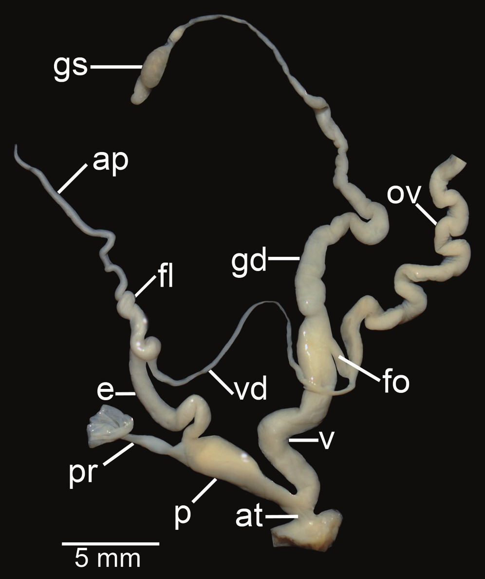 Photo of a reproductive system of Amphidromus roseolabiatus from Ban Phavong, Khammouan, Laos (CUMZ 7012). Scale bar is 5 mm.